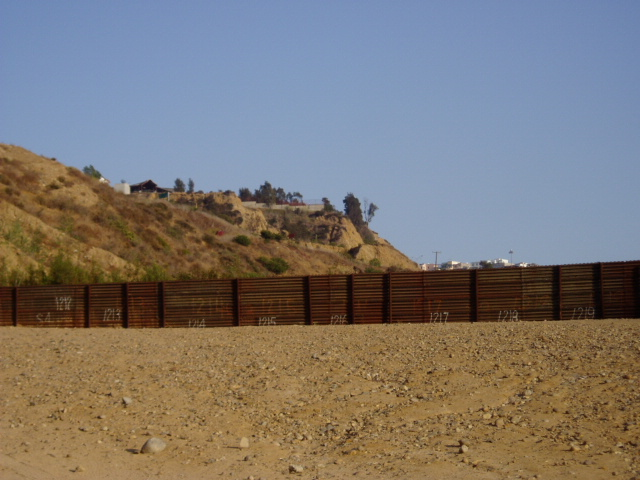 US-Mexico border barrier near Monument Road, San Diego, California, USA, looking into Tijuana, Baja California, Mexico. Commonsing ok. knoodelhed 17:53, 4 September 2007 (UTC)